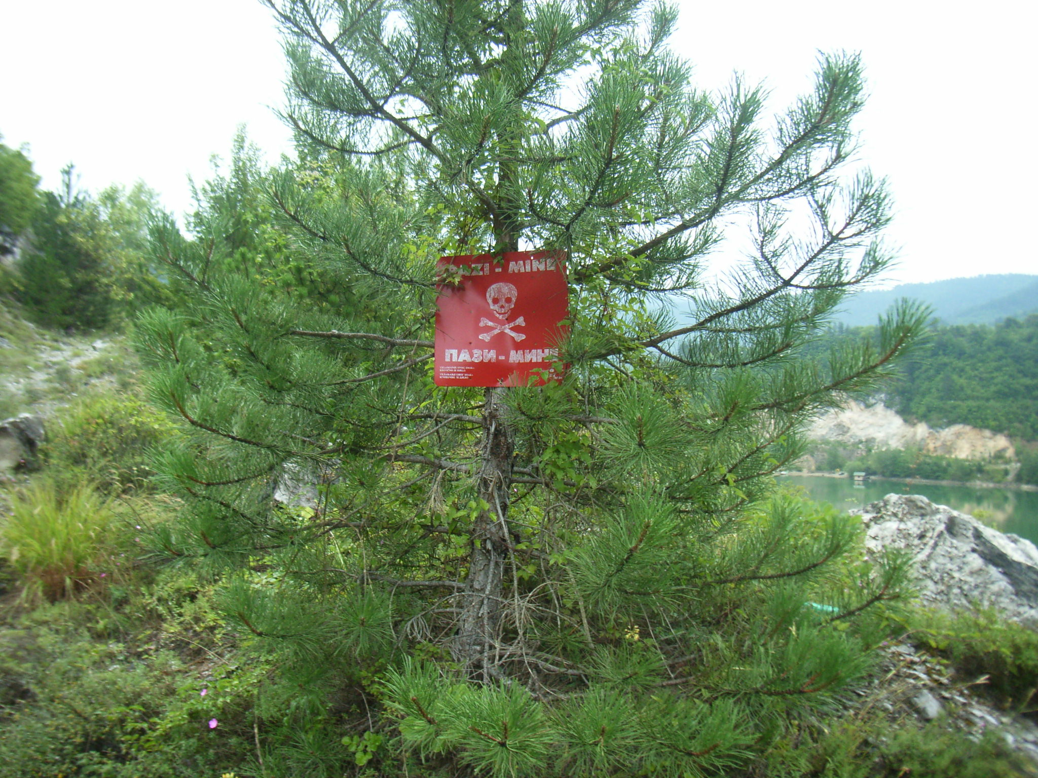 Višegrad in Bosnia and Herzegovina, mine warning sign near the Drina reservoir